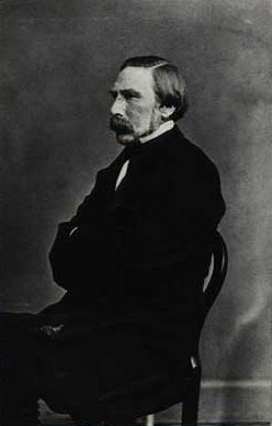 Danish architect and Royal Building Surveyor Vilhelm Theodor Walther (1819-1892)